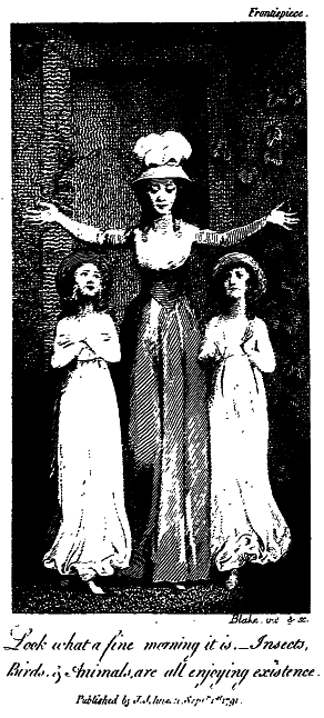 Illustration by William Blake for Mary Wollstonecraft's "Original Stories" (1791)